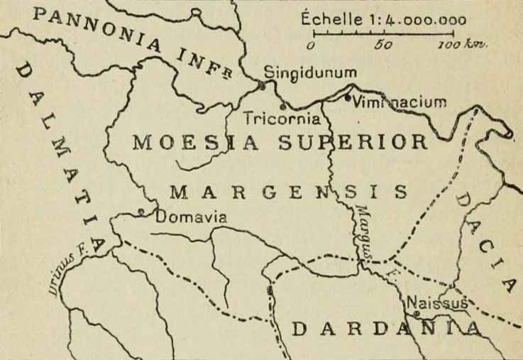 Moesia Superior Margensis